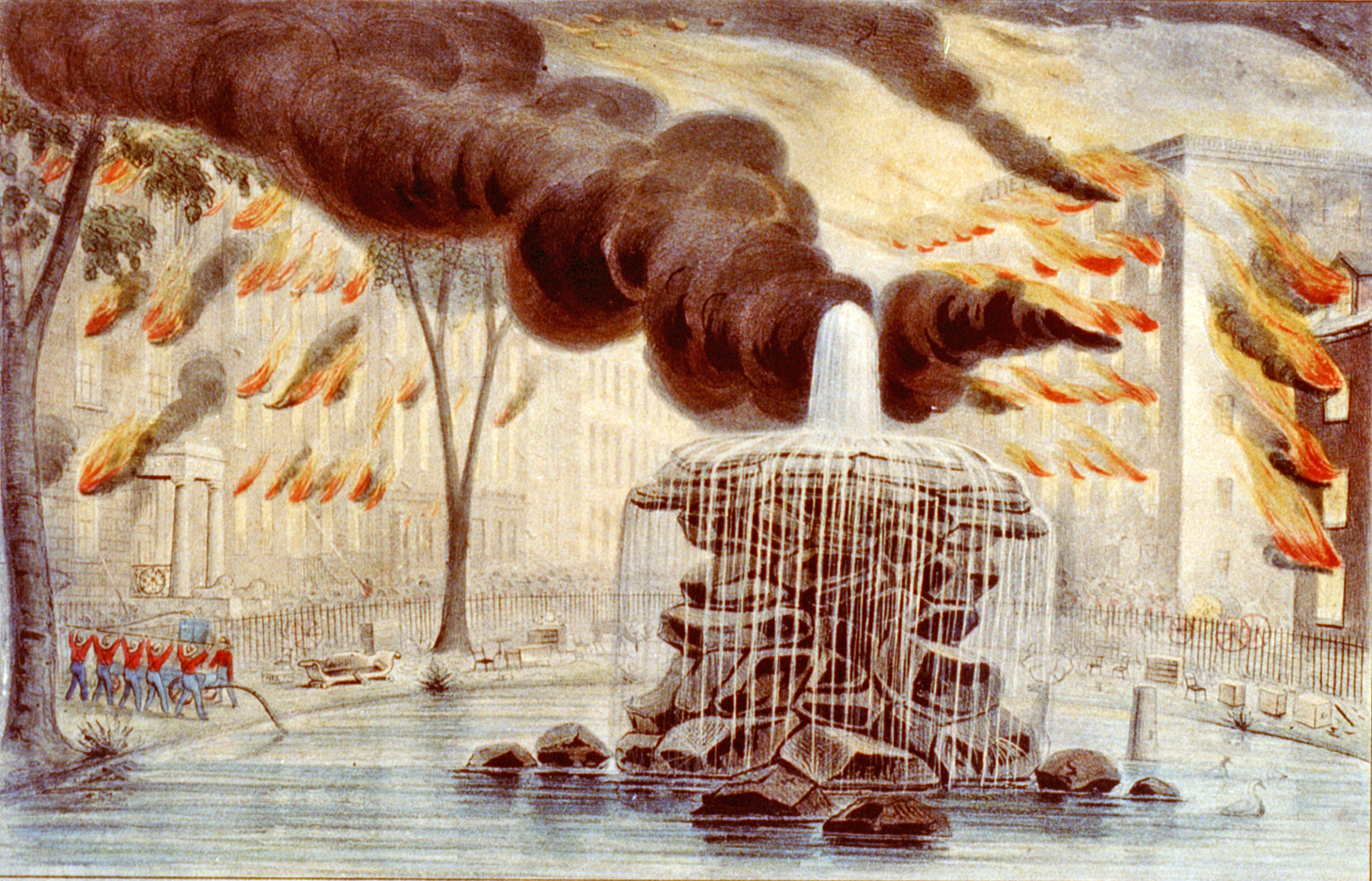 Illustration of the Great New York City Fire of 1845 from the Bowling Green, 19 July 1845.